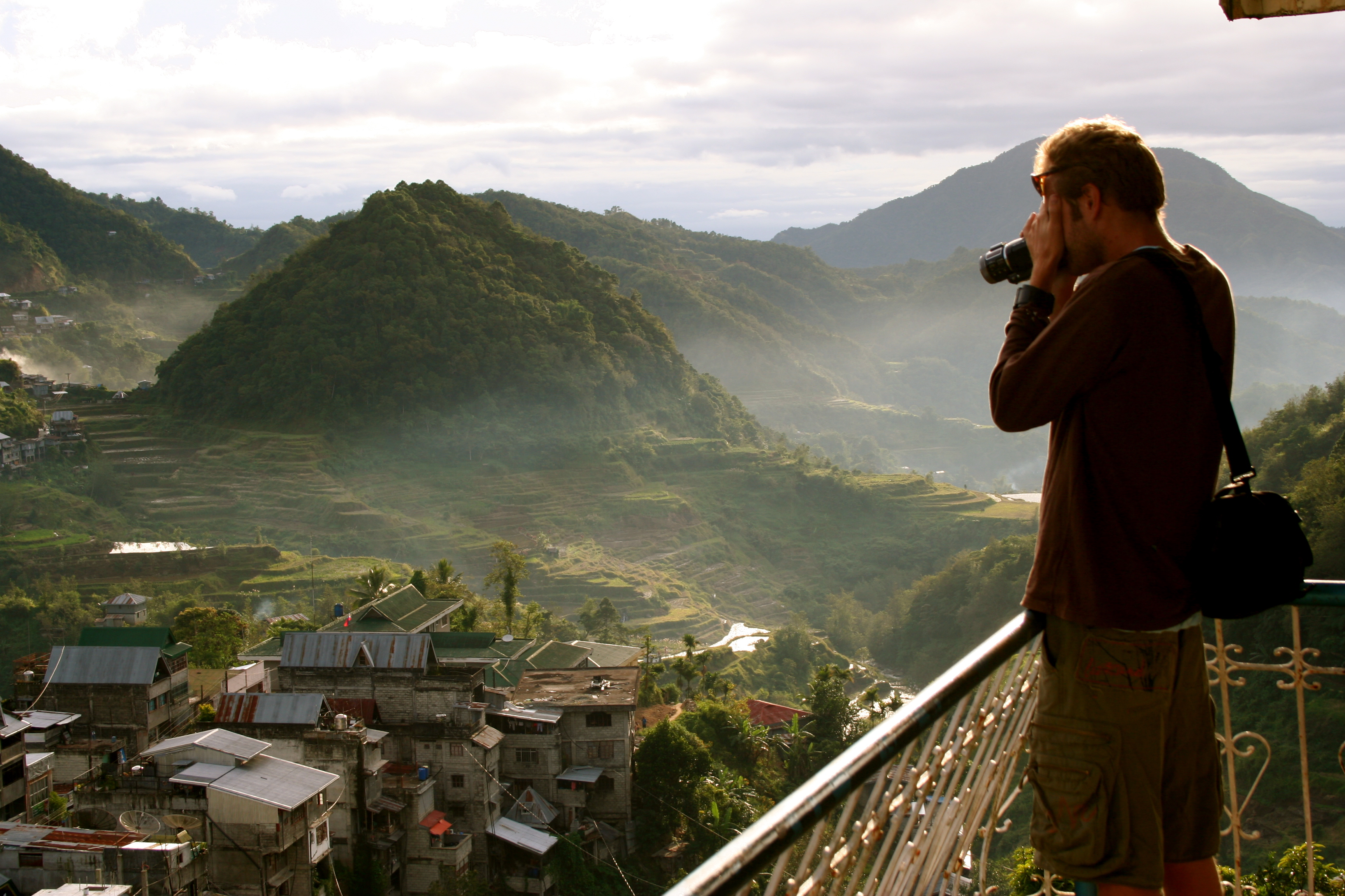 A tourist (the author) shooting photos of the Banaue Rice Terraces